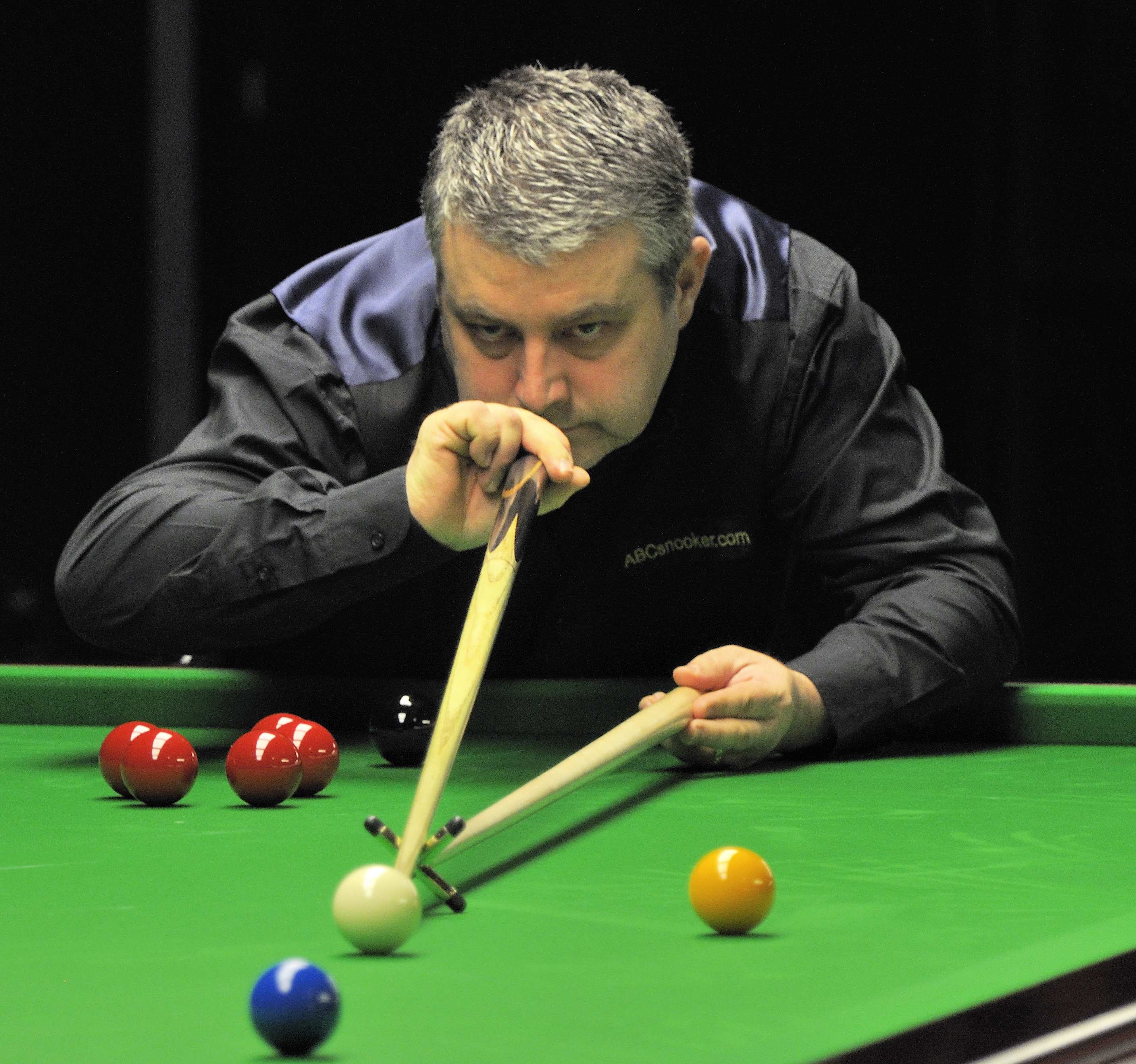 Picture taken in Berlin during the Snooker German Masters in 2014. Rod Lawler.